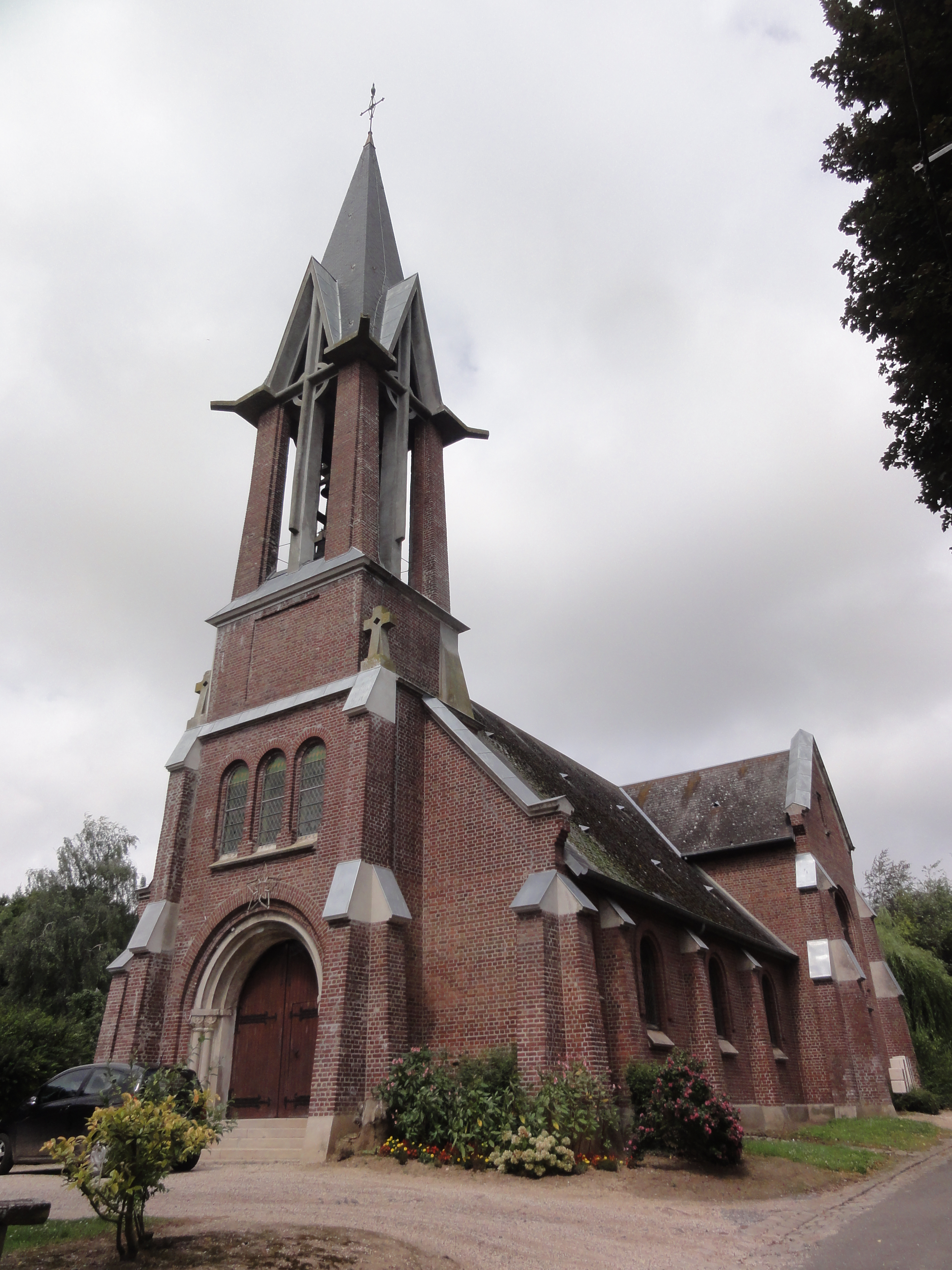 Foreste (Aisne) église Saint-Quentin